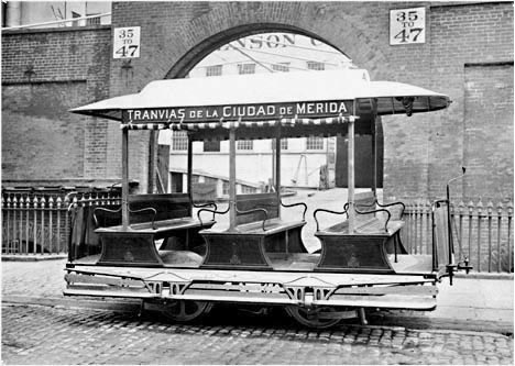 Picture of a tram outside the Stephenson factory, circa 1880, labeled for use by the City of Merida, Yucatan.